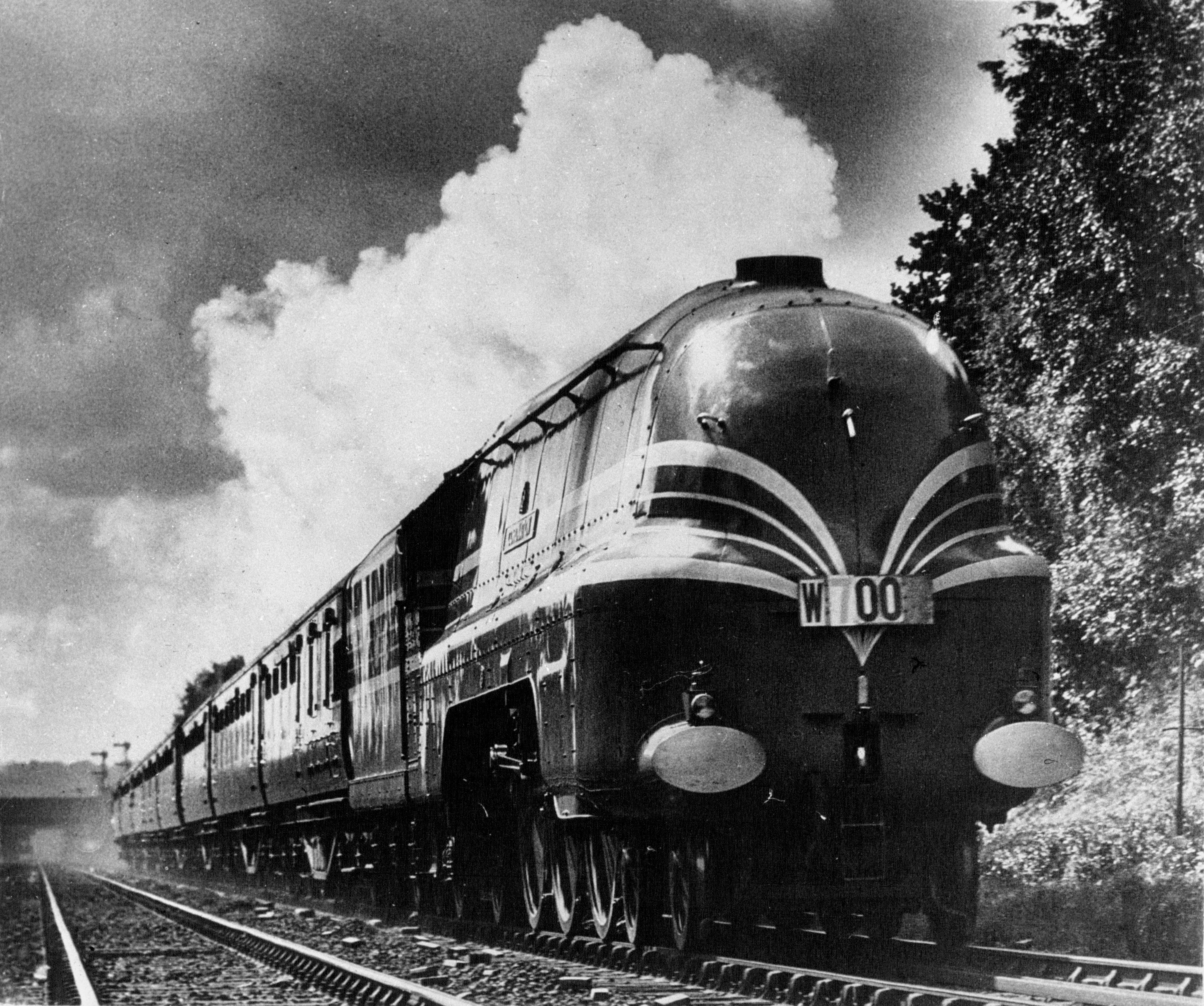 Streamlined train between London and Glasgow - the 'Coronation Scot' - photogrpahed at full speed.